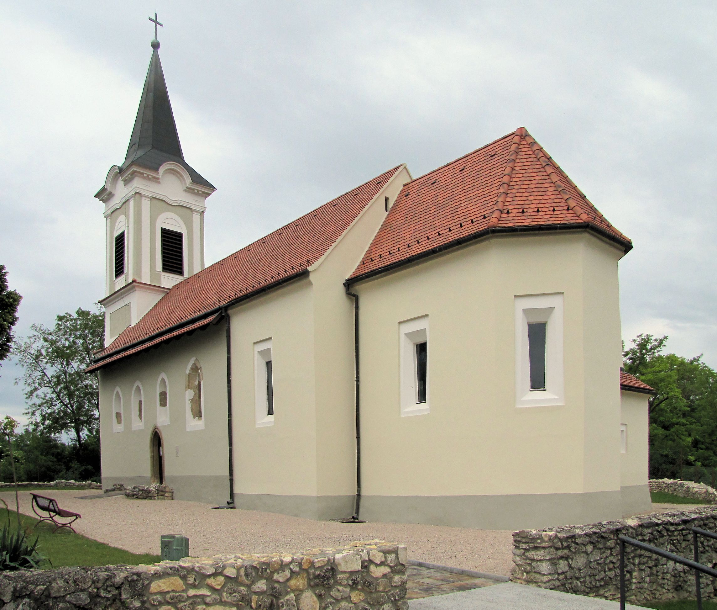 Roman Catholic Church, Fehérvárcsurgó, Hungary. Built in the 13th Century and rebuilt in the 14th, its recent tower is a Baroque construction.